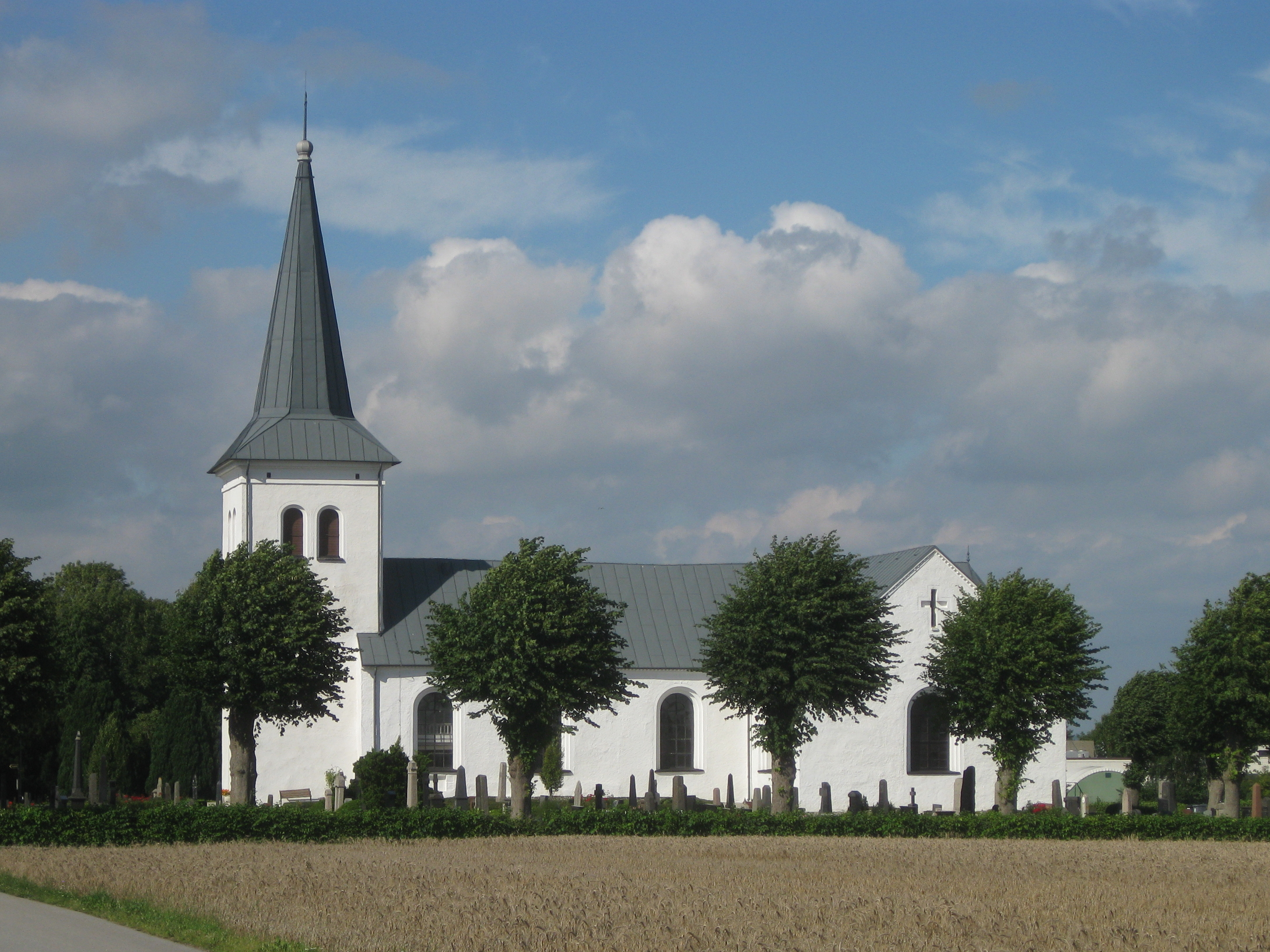 Vallby church in Skåne, Sweden